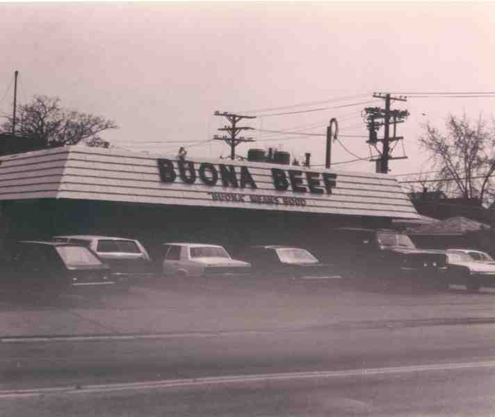 Buona's Berwyn Illinois location in 1981.